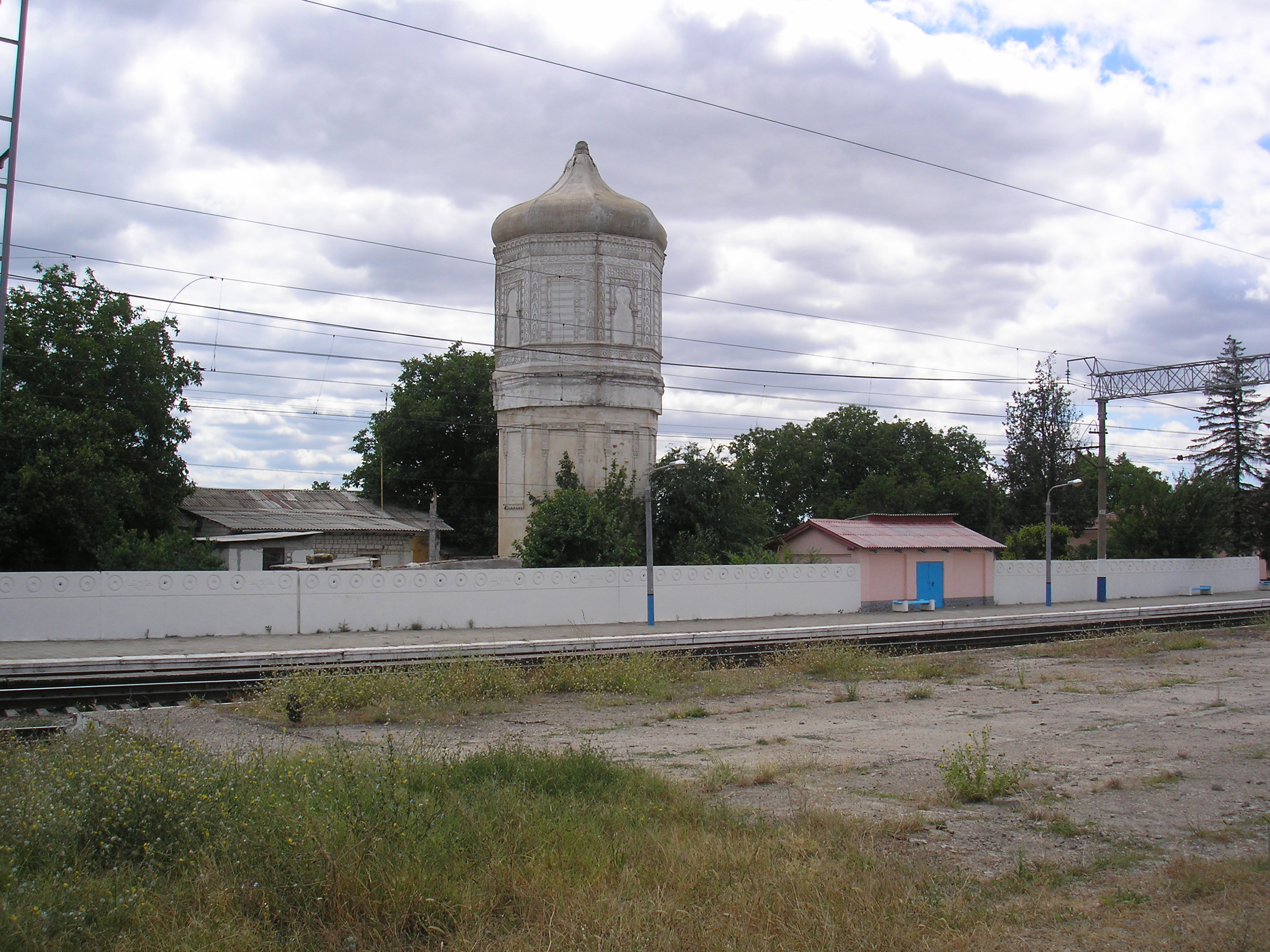 Water Tower, Railway station Pochtovaya of the railway road, Crimea.